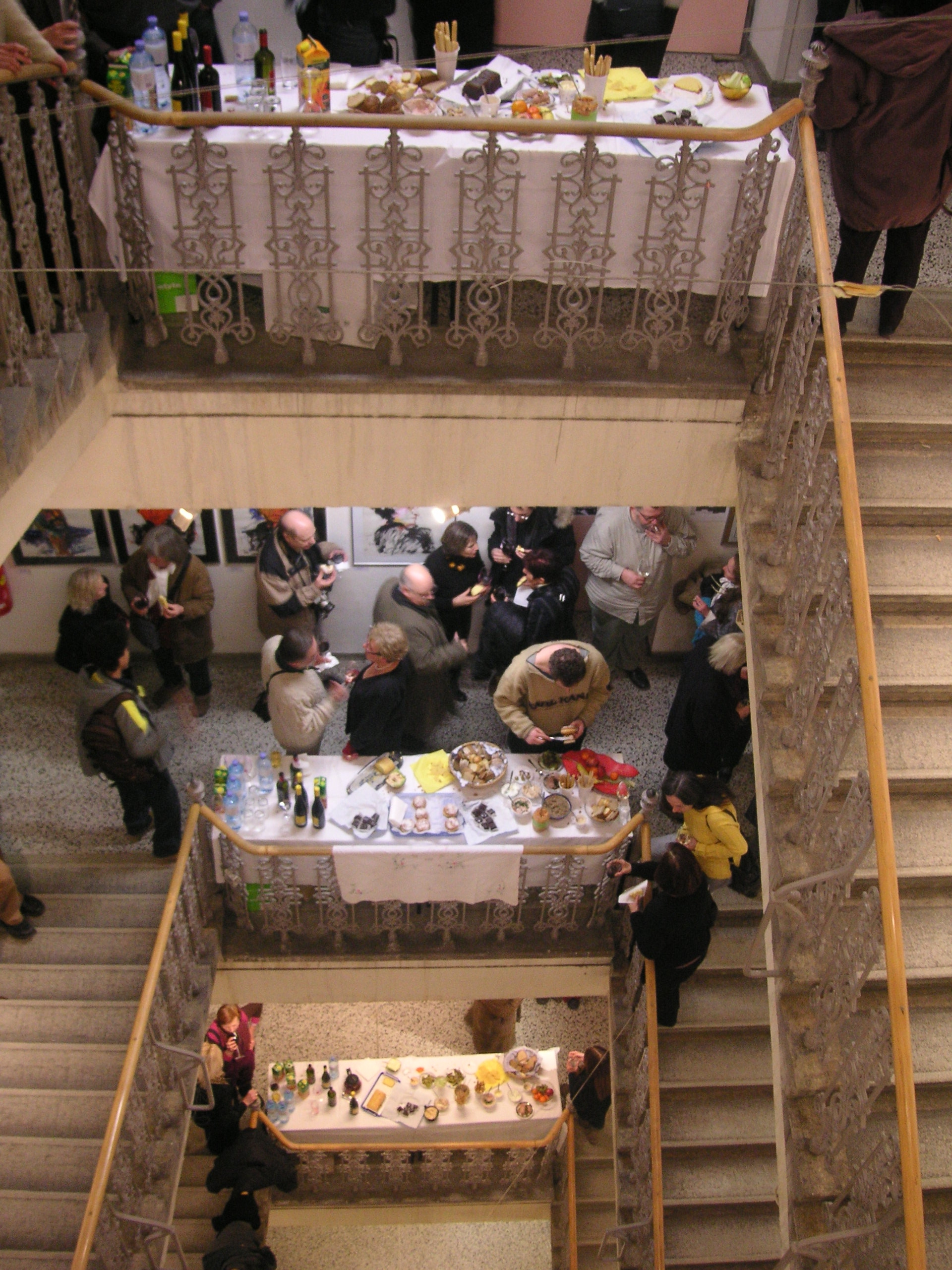 A small cold buffet at an art school in Vienna, Austria. Photo by KF, February 2006.